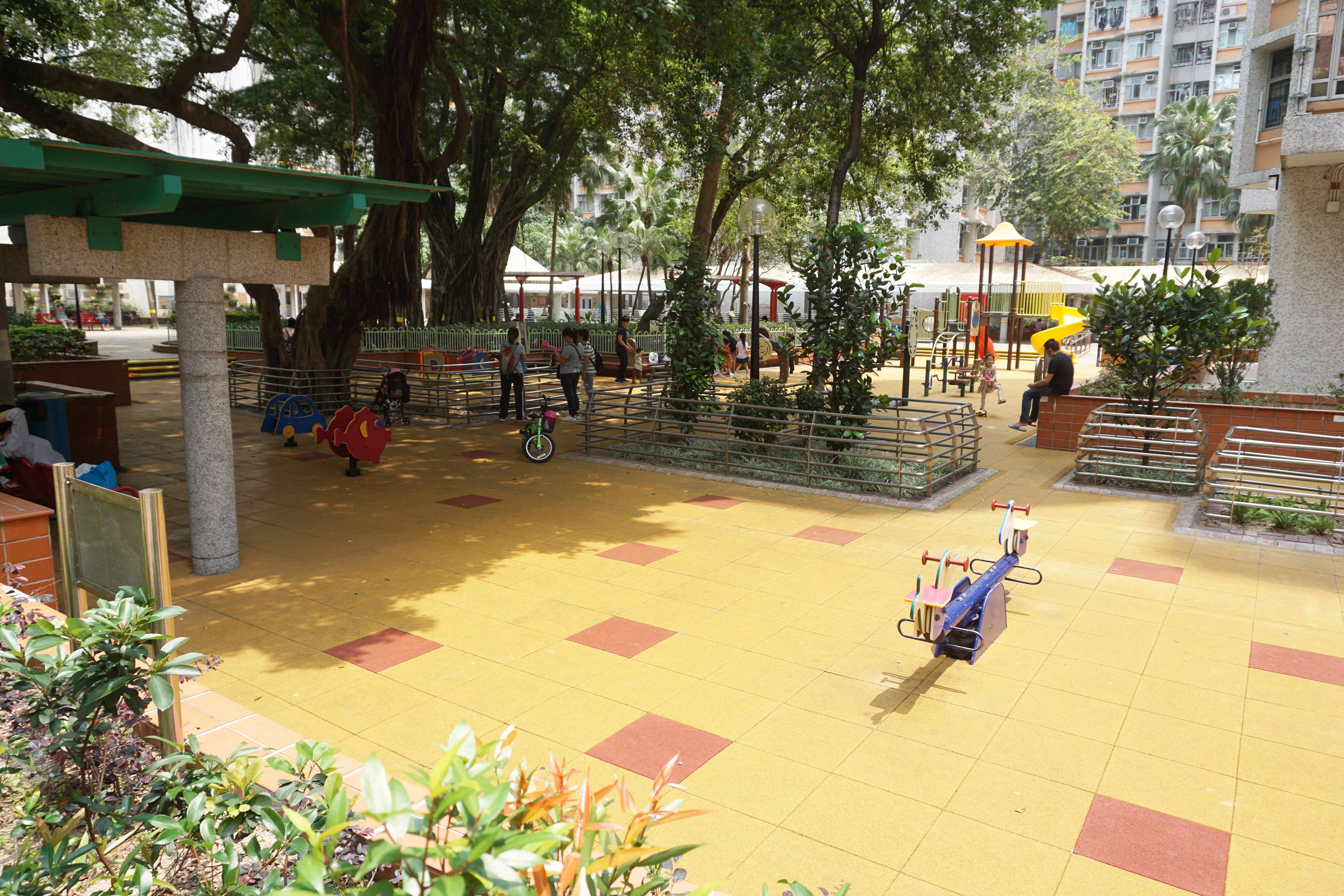 Lai On Estate in Sham Shui Po, Hong Kong.